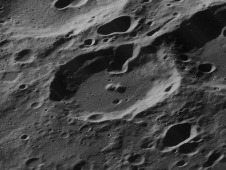 Oblique view of Petropavlovskiy, on the far side of the moon, facing west.